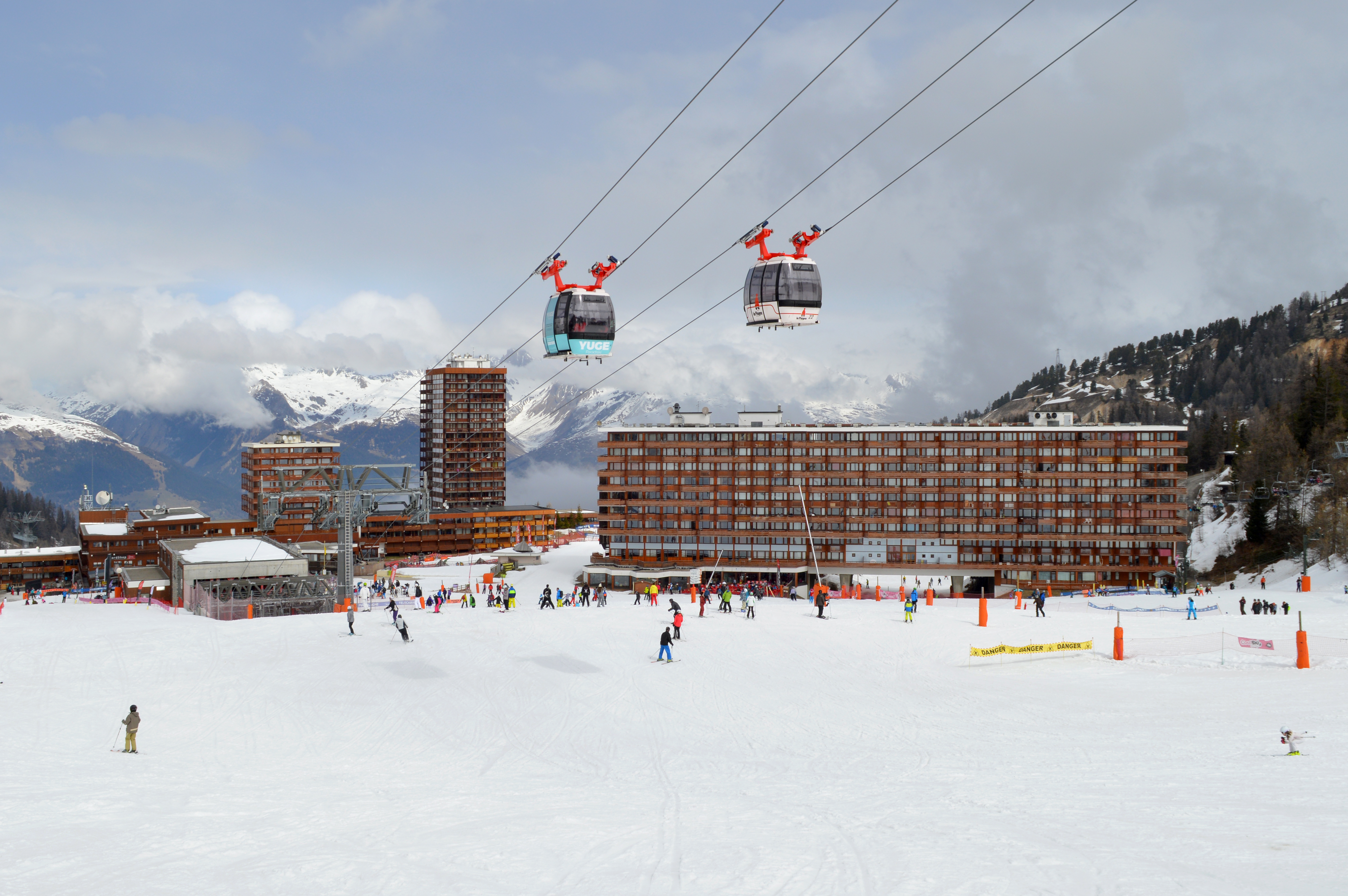 Plagne Centre, April 2017